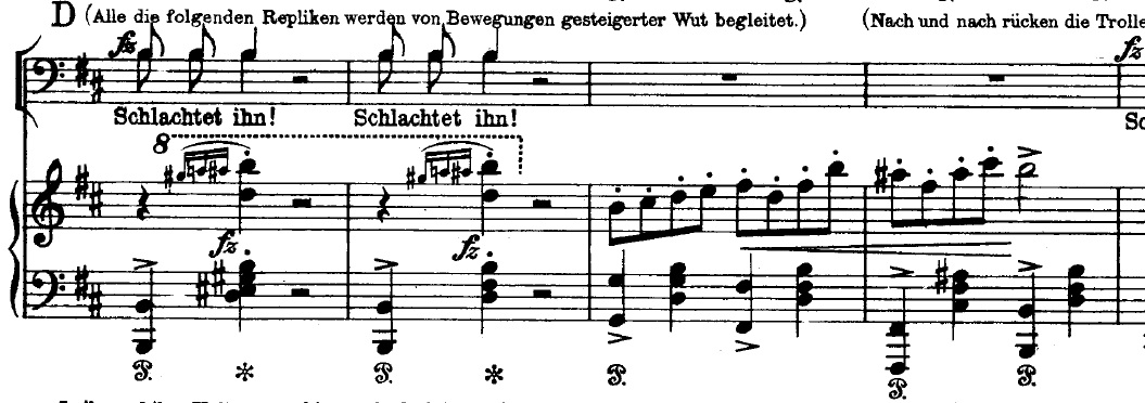 Peer Gynt Suite No.1, Op.46, début coda de In the Hall of the Mountain King